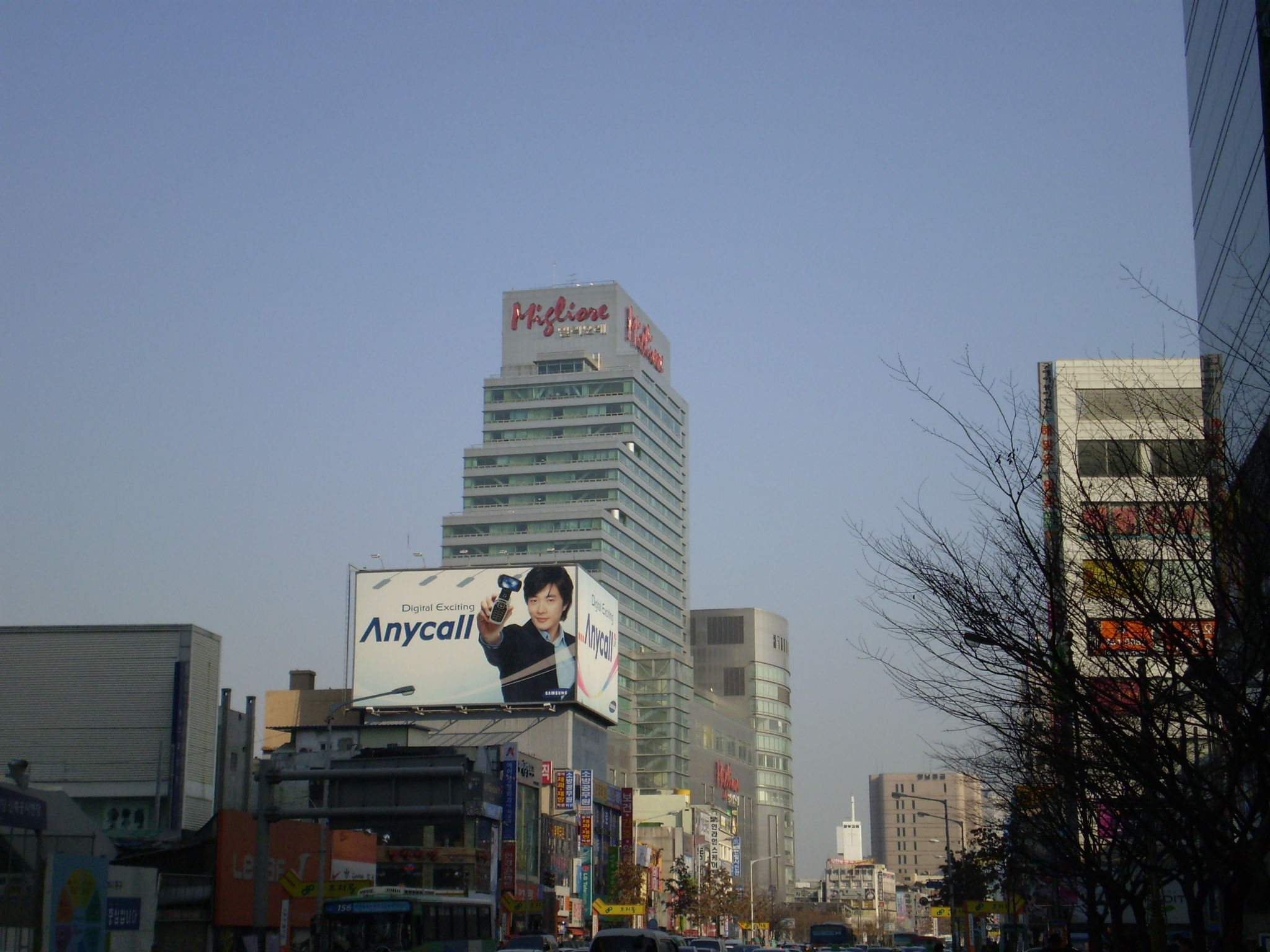 Migliore building in Daegu, South Korea.